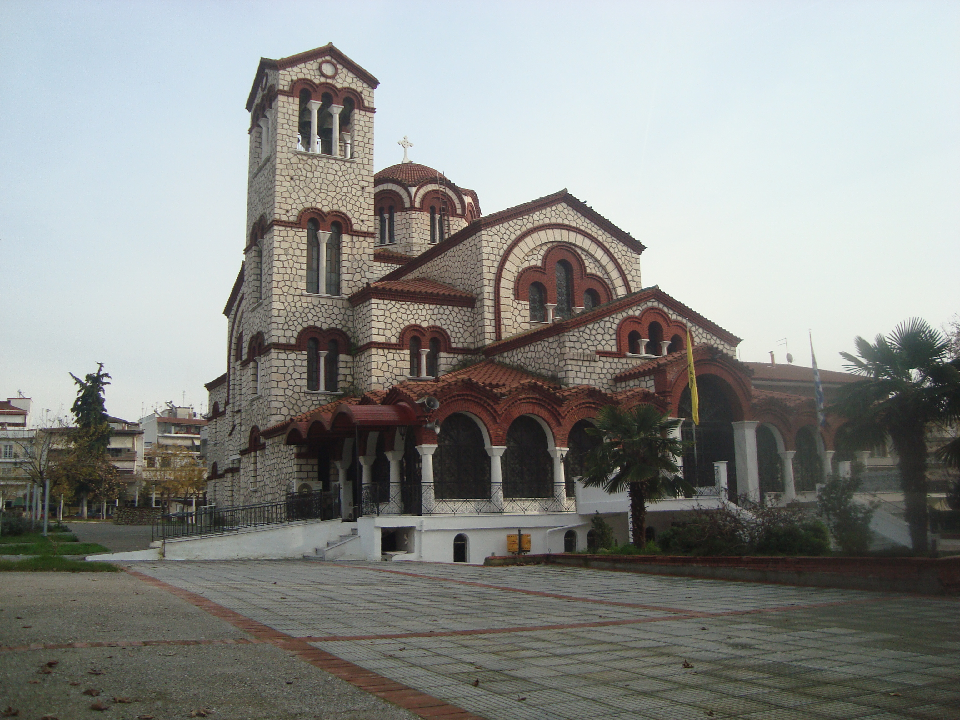 Saint George Church in Giannitsa